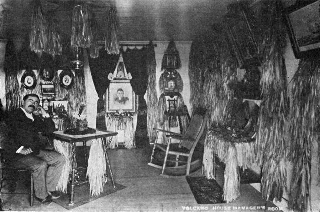 Demosthenes Lycurgus in the Volcano House hotel, circa 1908, on the Island of Hawaii. Note the shrine to the deposed Queen Lili'uokalani, and the notation "Volcano House manager's room"